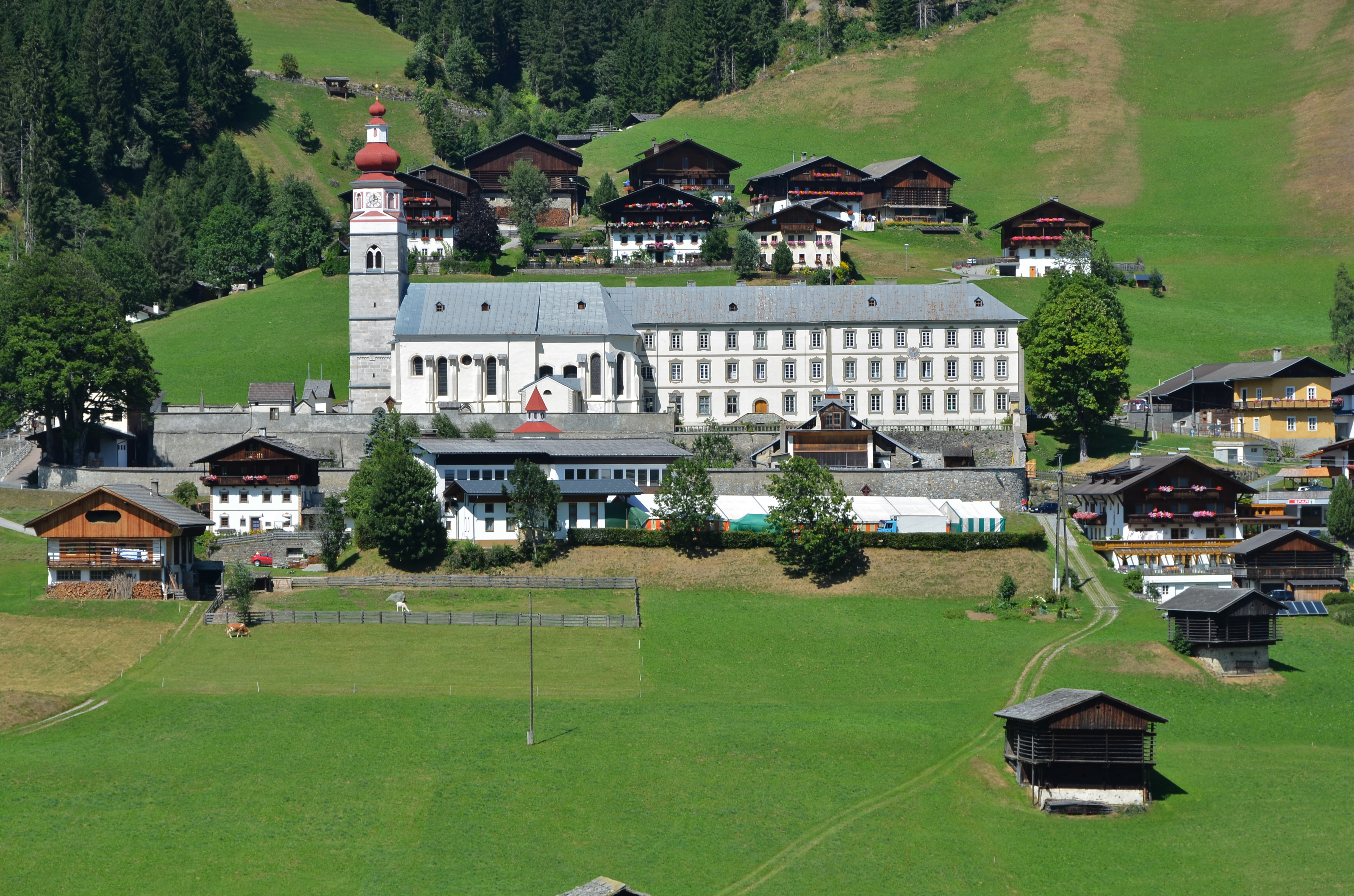 Monastry of the Servite Order with the pilgrimage church of the Servite Order in Maria Luggau, municipality Lesachtal, district Hermagor, Carinthia, Austria, EU